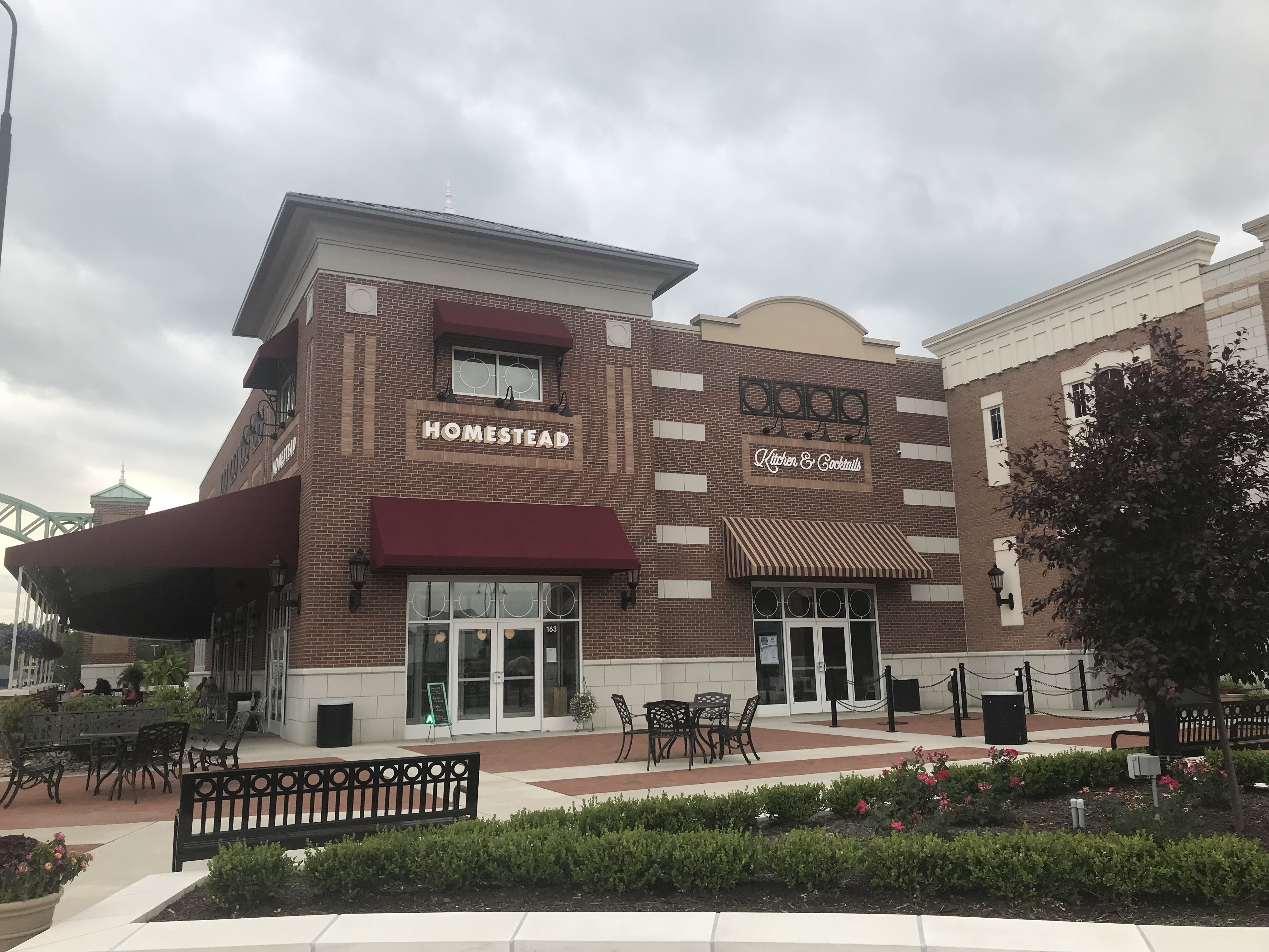 TownCentre at Firestone Farms